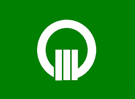 Flag of Matsukawa-village Nagano